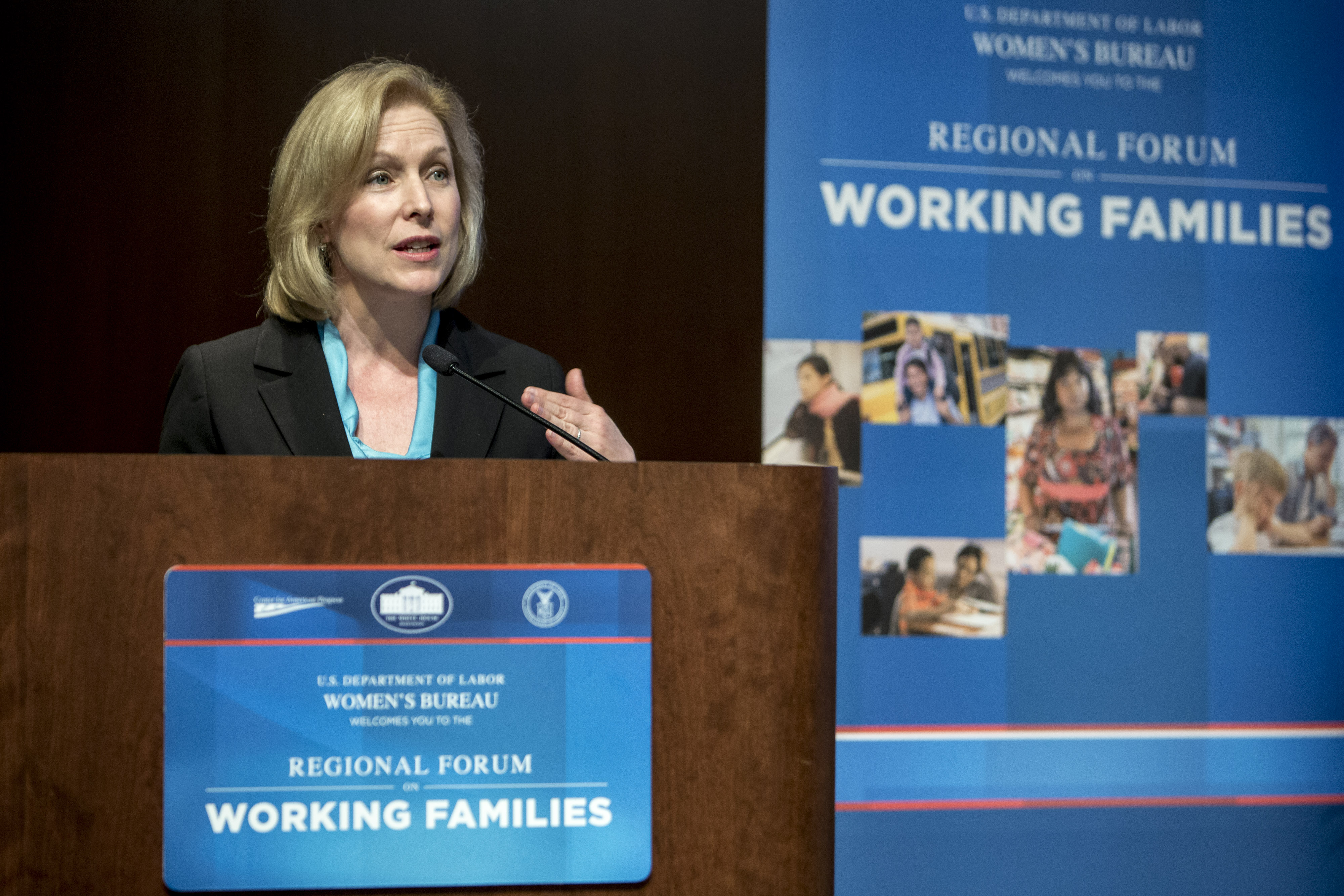 Senator Kirsten Gillibrand (D - N.Y.) speaks at The White House Summit on Working Families New York Regional Forum, May 12, 2014 in New York. INSIDER IMAGES/Gary He for U.S. Department of Labor